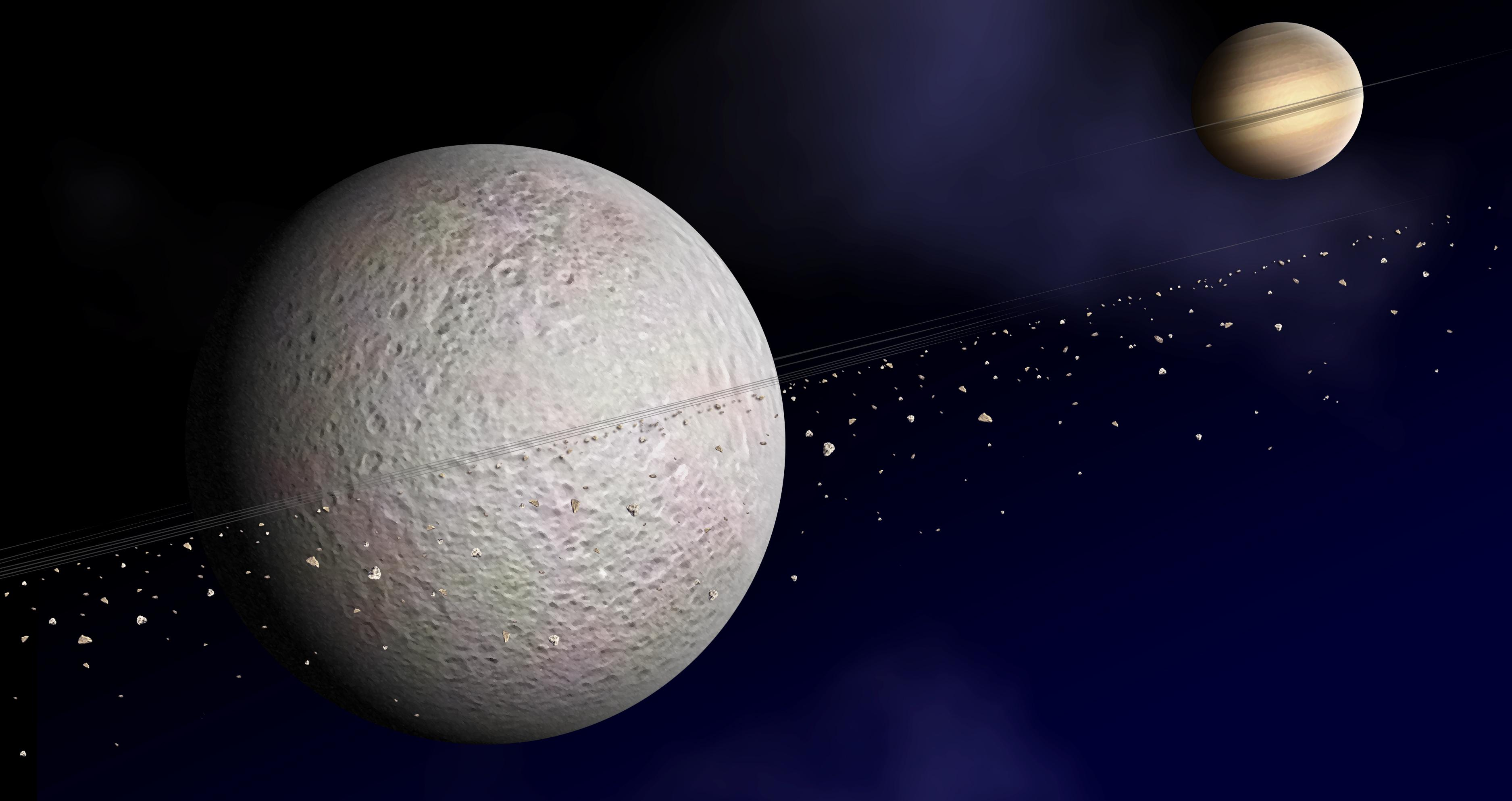 Artist's conception of Rhean rings